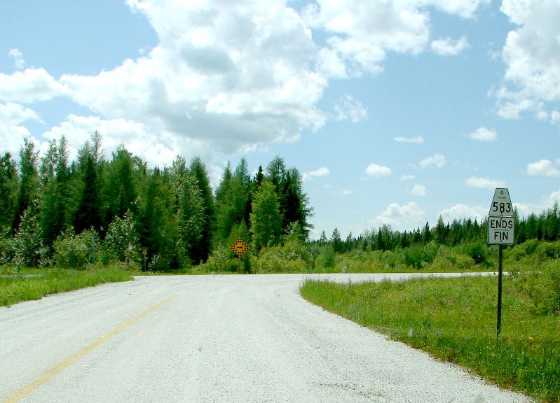 South end of highway 583, Ontario, Canada